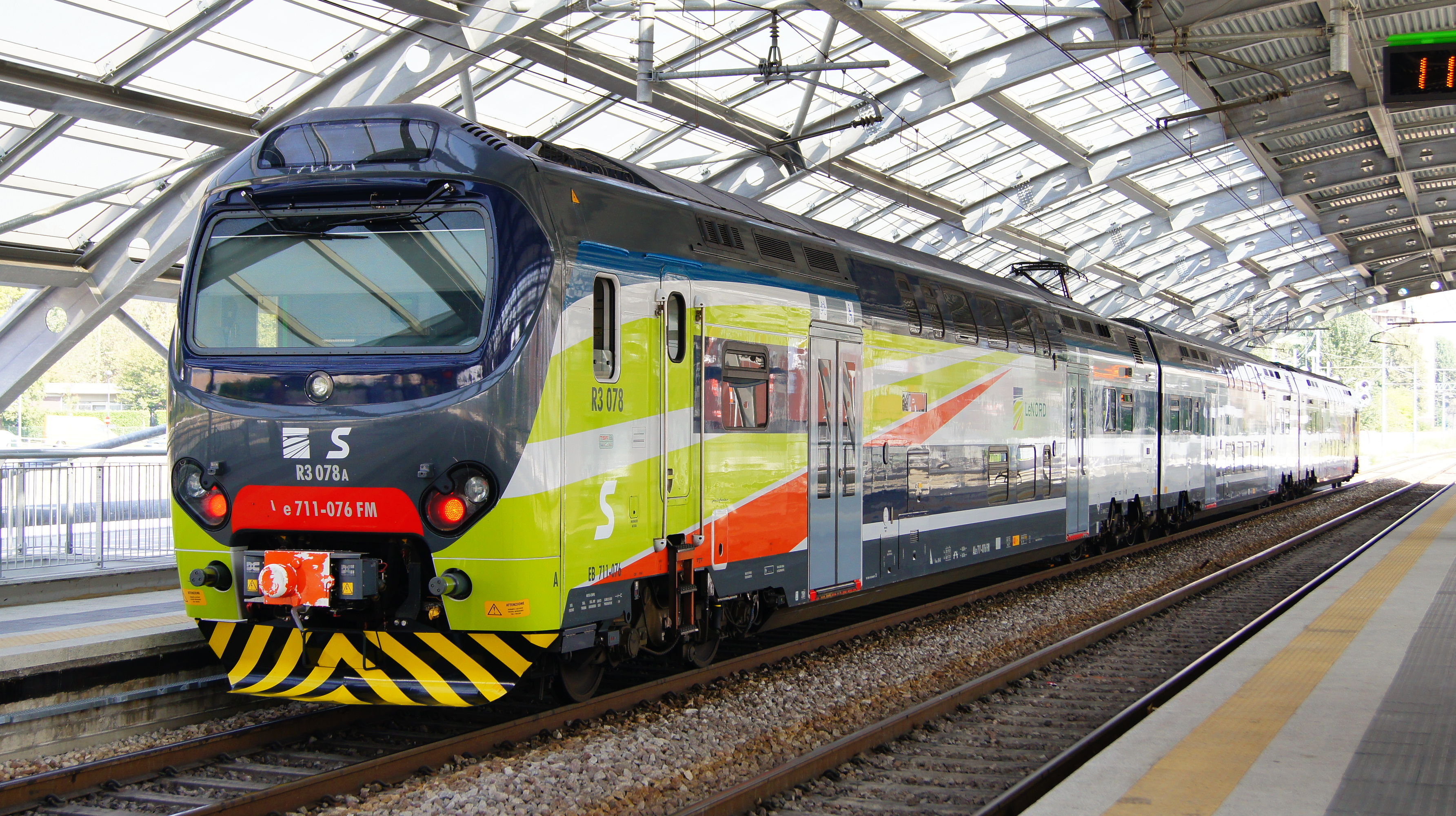 TSR Train